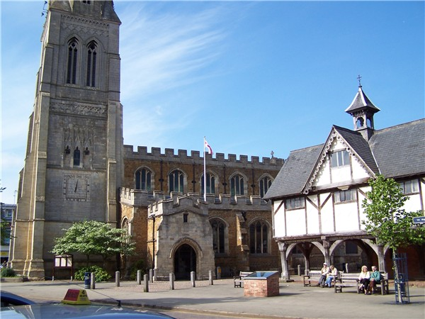 Church Square, Market Harborough, Leicestershire. On the right is the Old Grammar School and former butter market. Beyond it is St Dionysius' parish church.